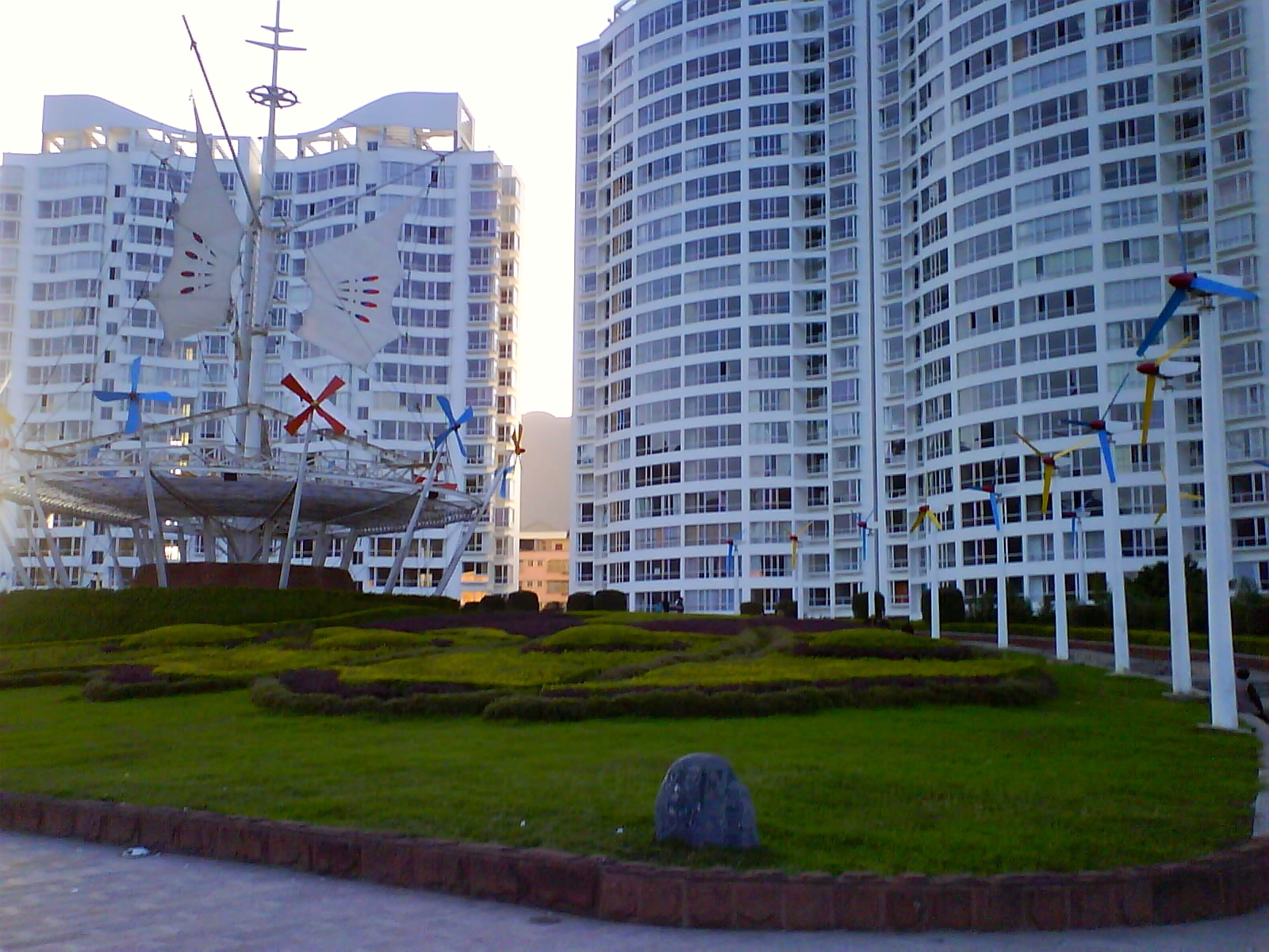 Micro Wind turbines field in Dali (大理), Yunnan province, China in september 2007